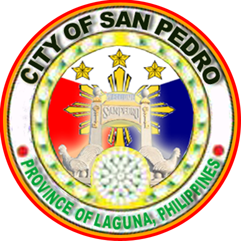 san pedro city seal